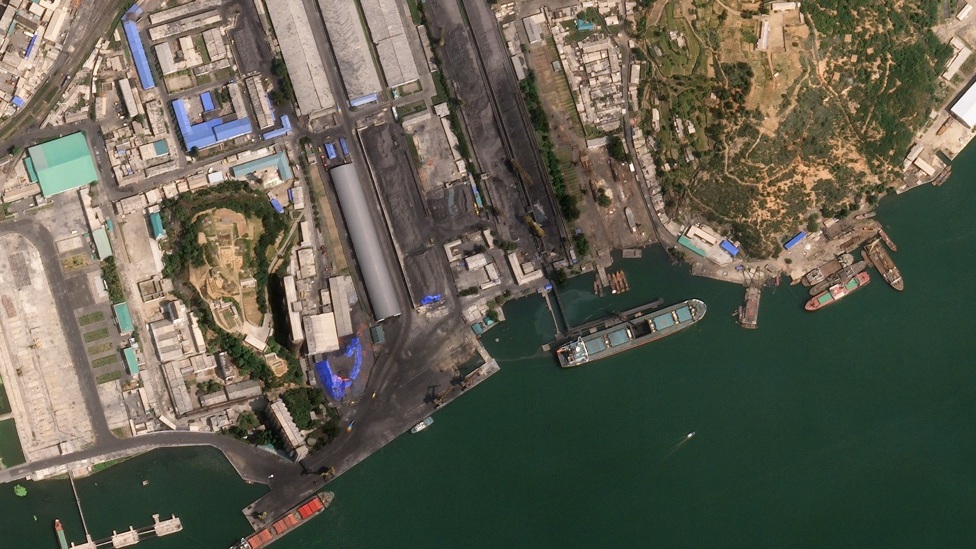 The Bai Mei 8 loading coal at Nampo, North Korea on July 6, 2017, after returning from Ningbo, China. SkySat imagery captured July 6, 2017.